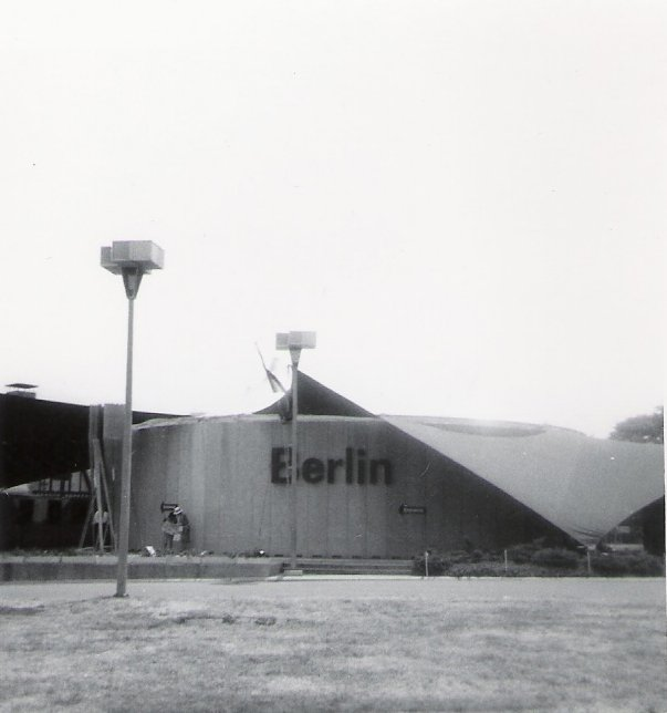 1964 New York World's Fair